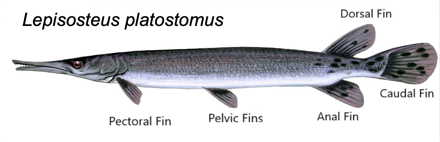 Fins on shortnose gar Lepisosteus platostomus